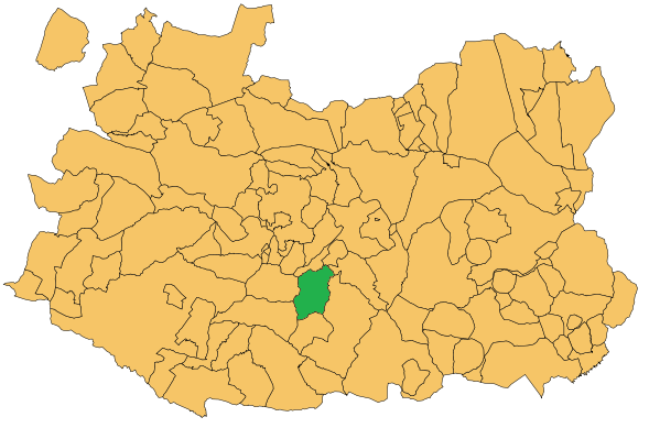 Aldea del Rey